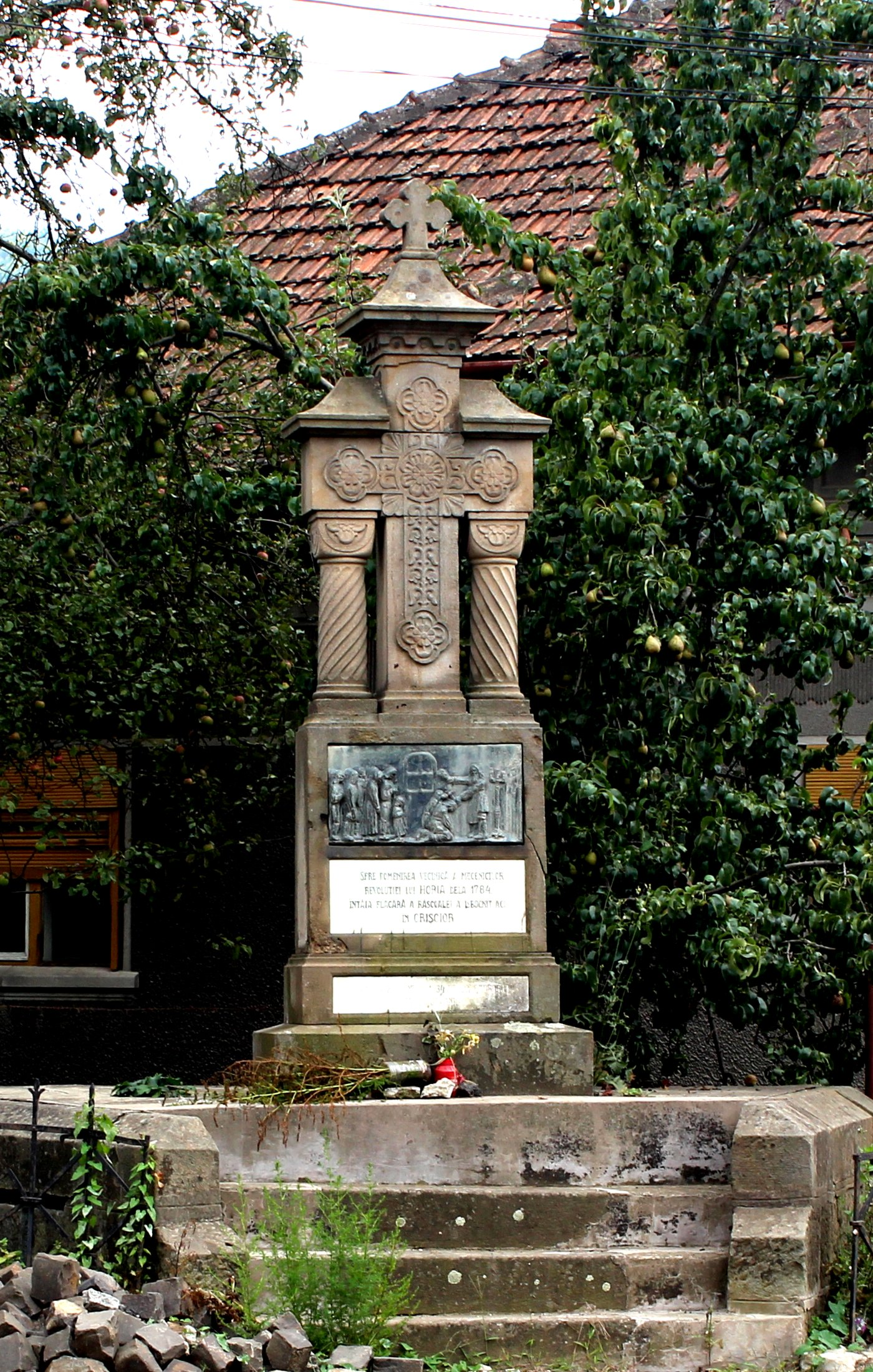 Cross in Crișcior, Hunedoara, România